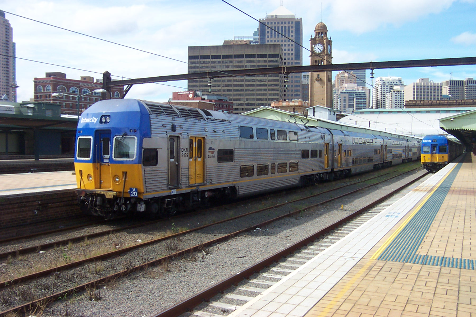 A DK series V set at Central Station, Sydney